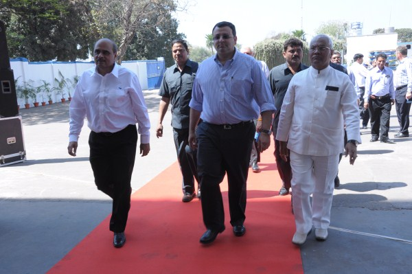 Rakeshwar Pandey with Cyrus Mistry